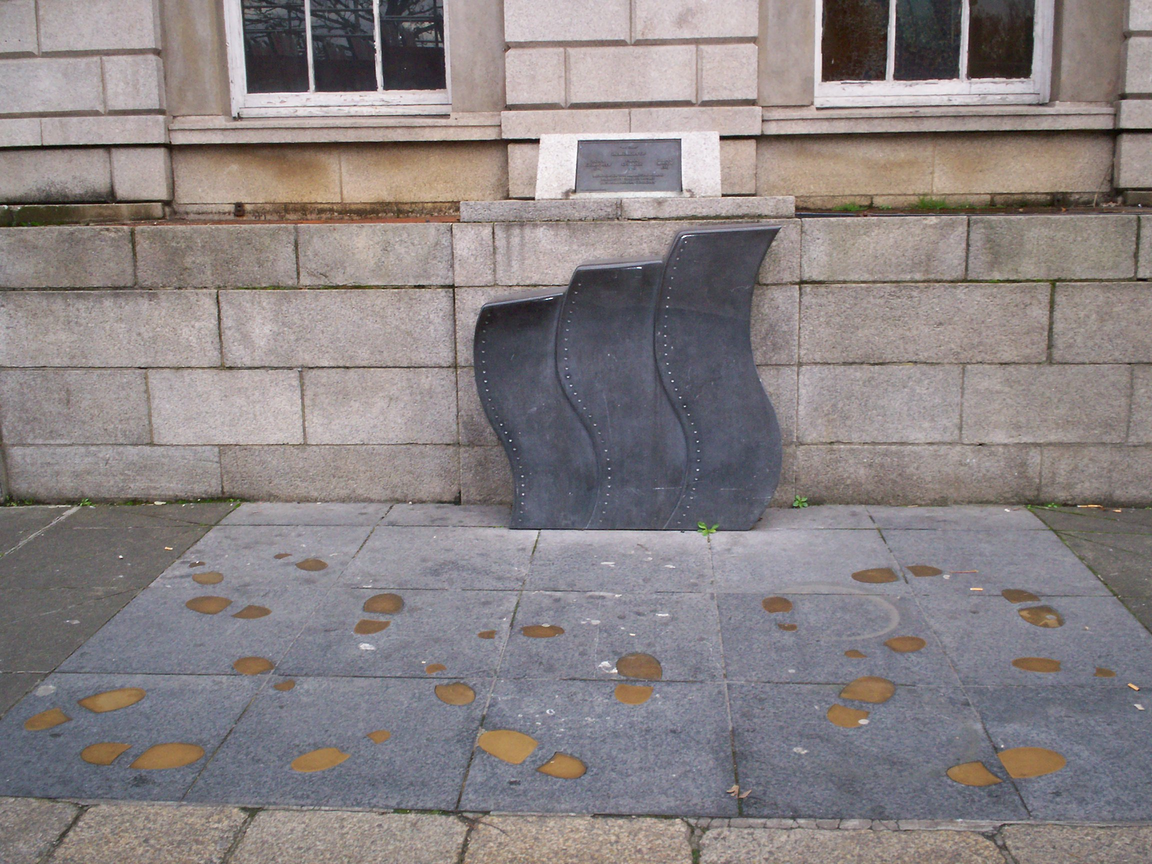 Memorial on Parnell Square North to those killed in the Miami Showband Massacre. Erected 2007 Redmond Herrity